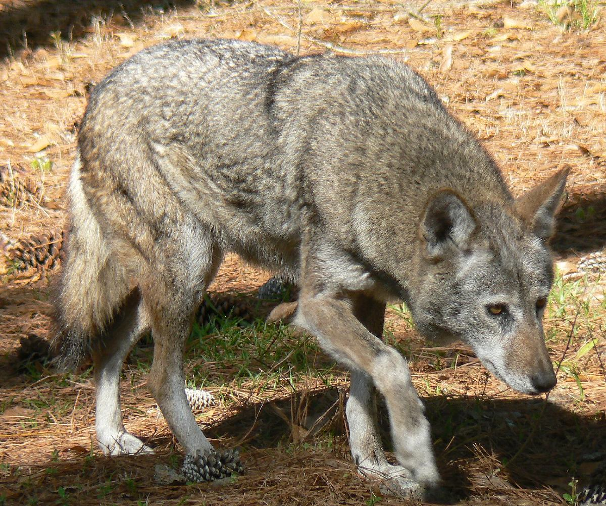 Red Wolf, captive specimen at Chehaw Park, Albany GA, USA